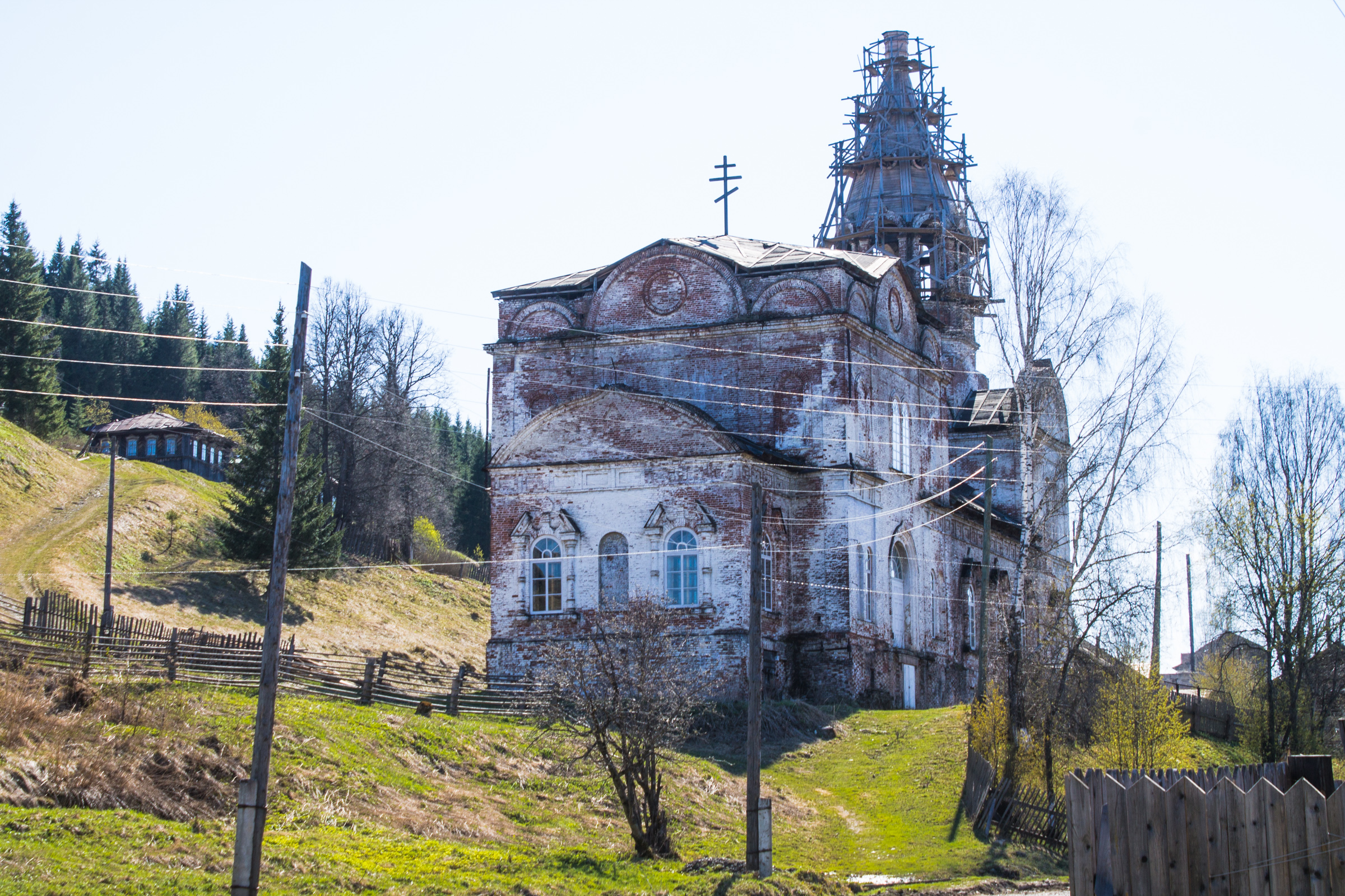 Село Кын, май 2016